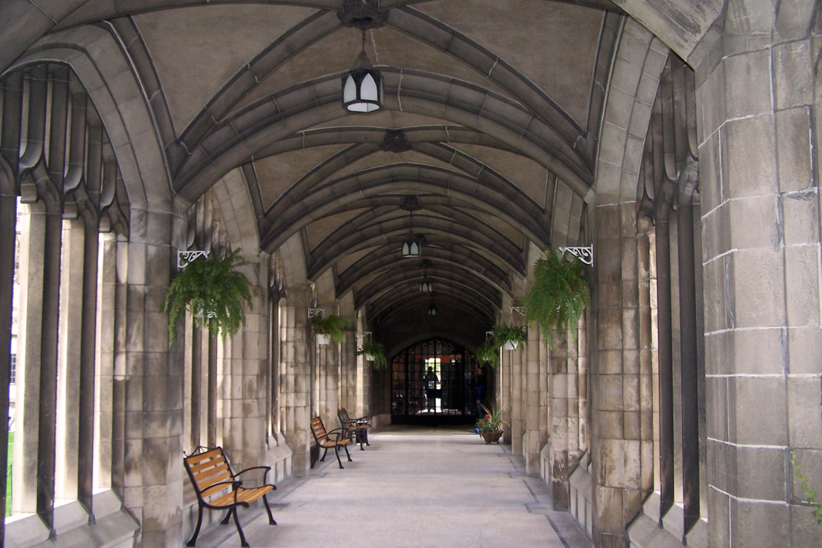 Knox College, University of Toronto